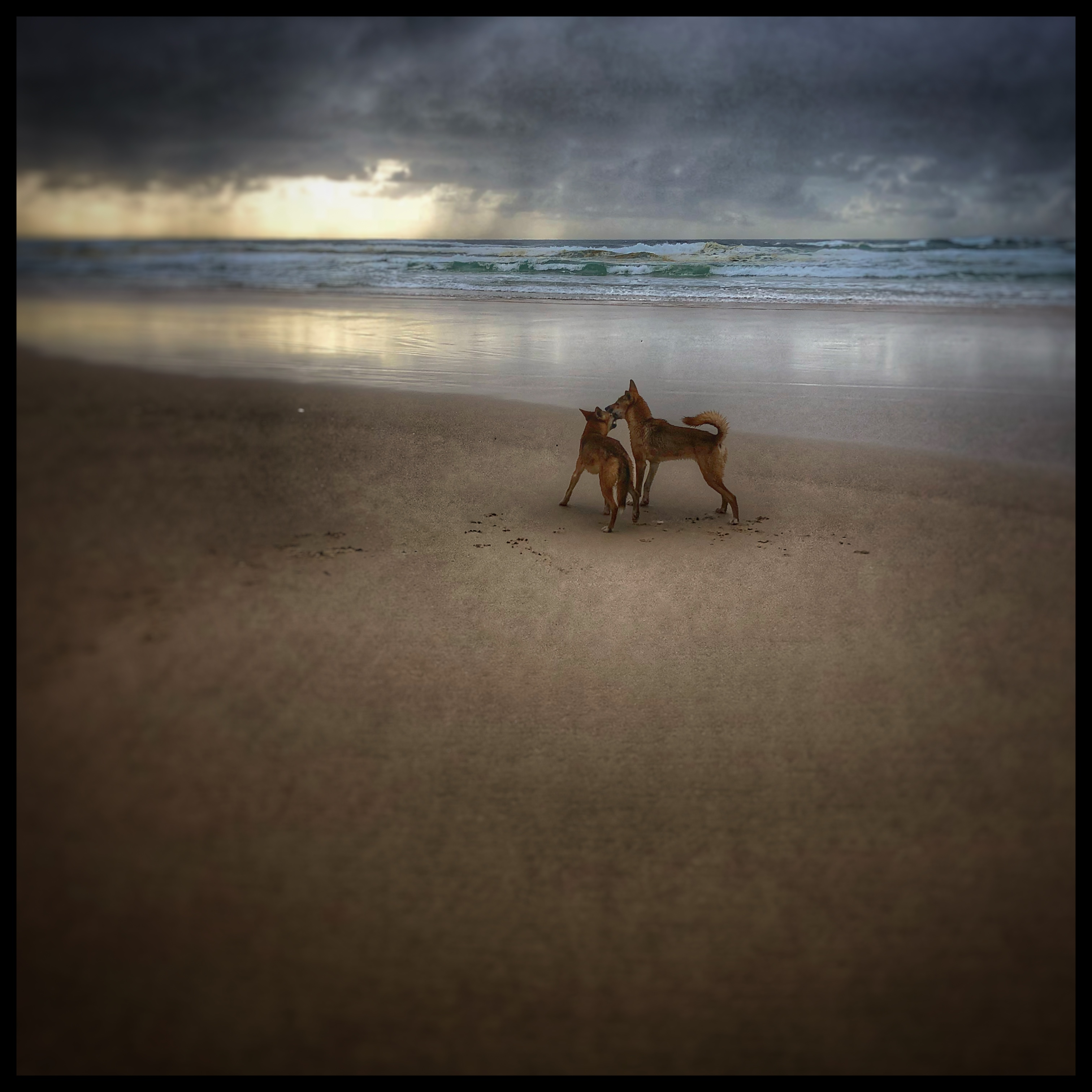 To juvenile dingoes playing near Eli Creek on 75mile beach Fraser Island